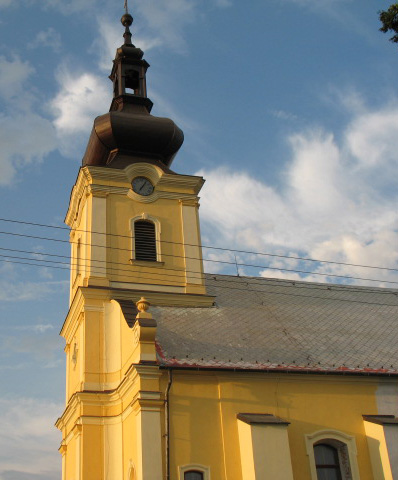 Church in Ludanice